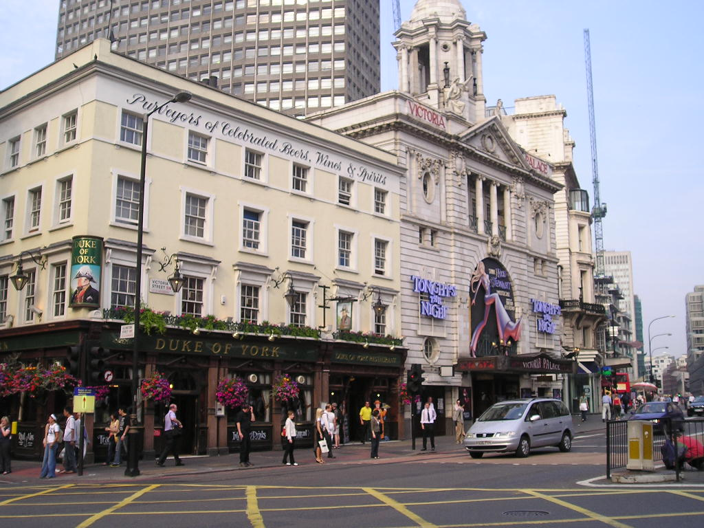 Duke of York, Victoria Street, London